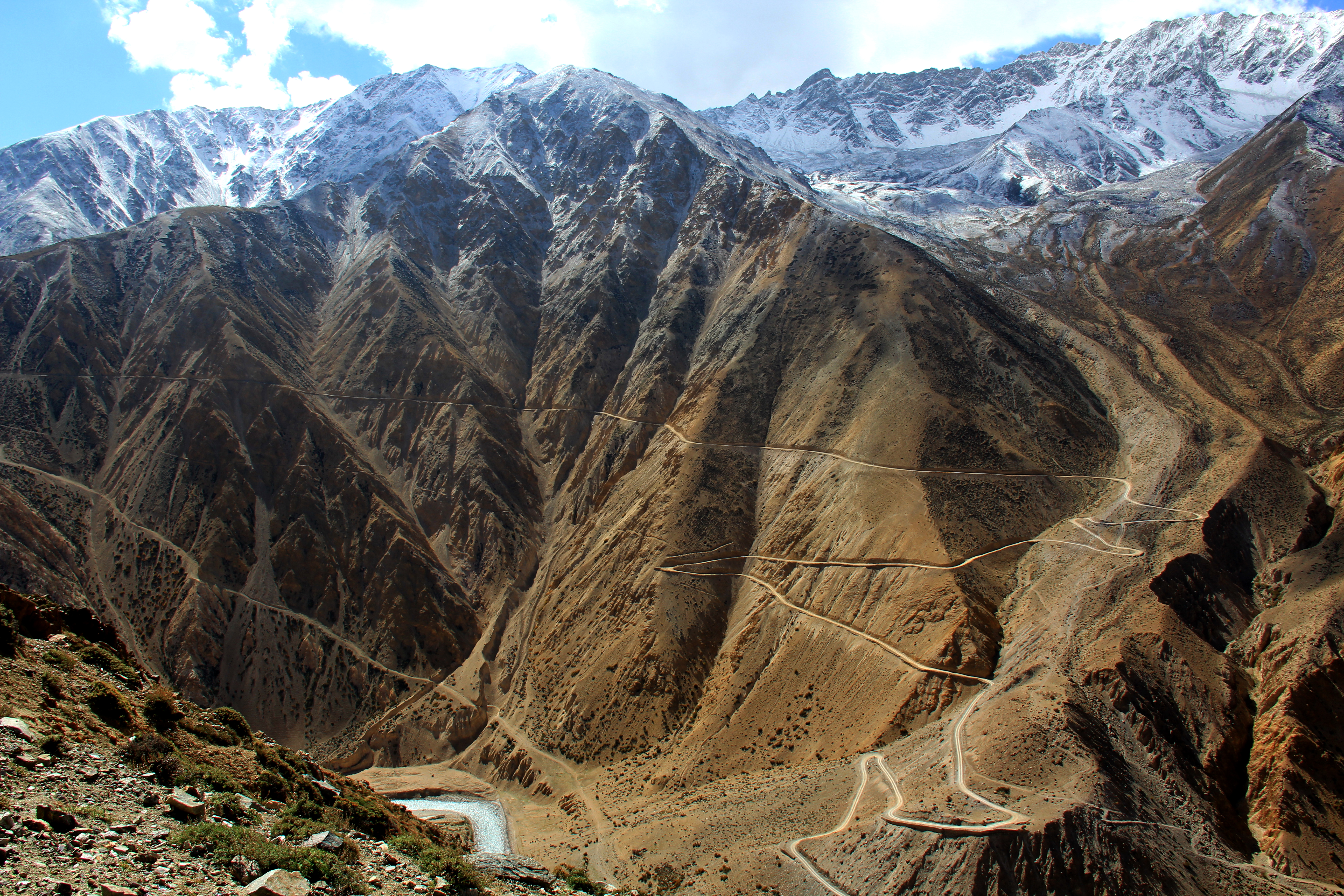 The road descending from Nara La (pass) 4535 m Humla district, Nepal to the border of Tibet at Hilsa on the bank of Karnali river. The road is connected from Manasarovar Lake close by Mount Kailash in Tibet.नेपाली: हुम्ला जिल्लाको नेपाल र तिब्बत सिमानामा अवस्थित घुमौरे सडक र साथमा रहेको कर्णाली नदिको एक मनोरम दृश्य ।